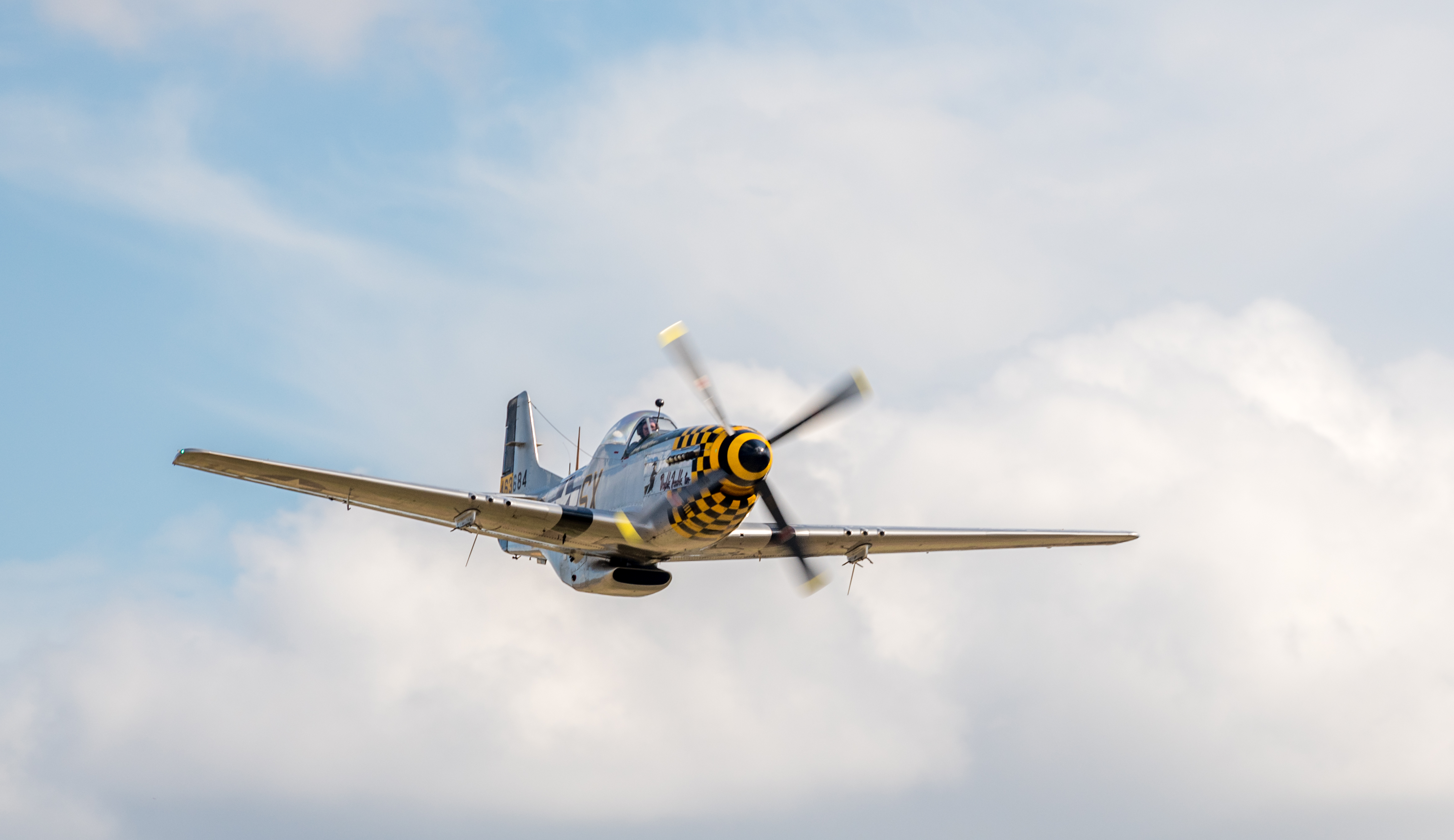 P-51 Mustang Double Trouble two in flight.